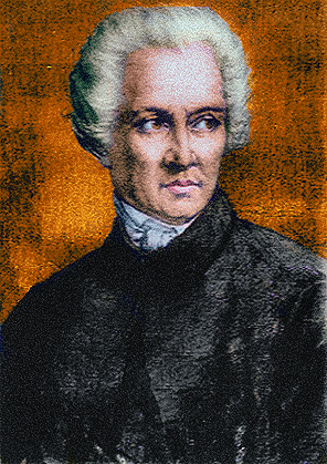 Portrait of Dionysios Solomos